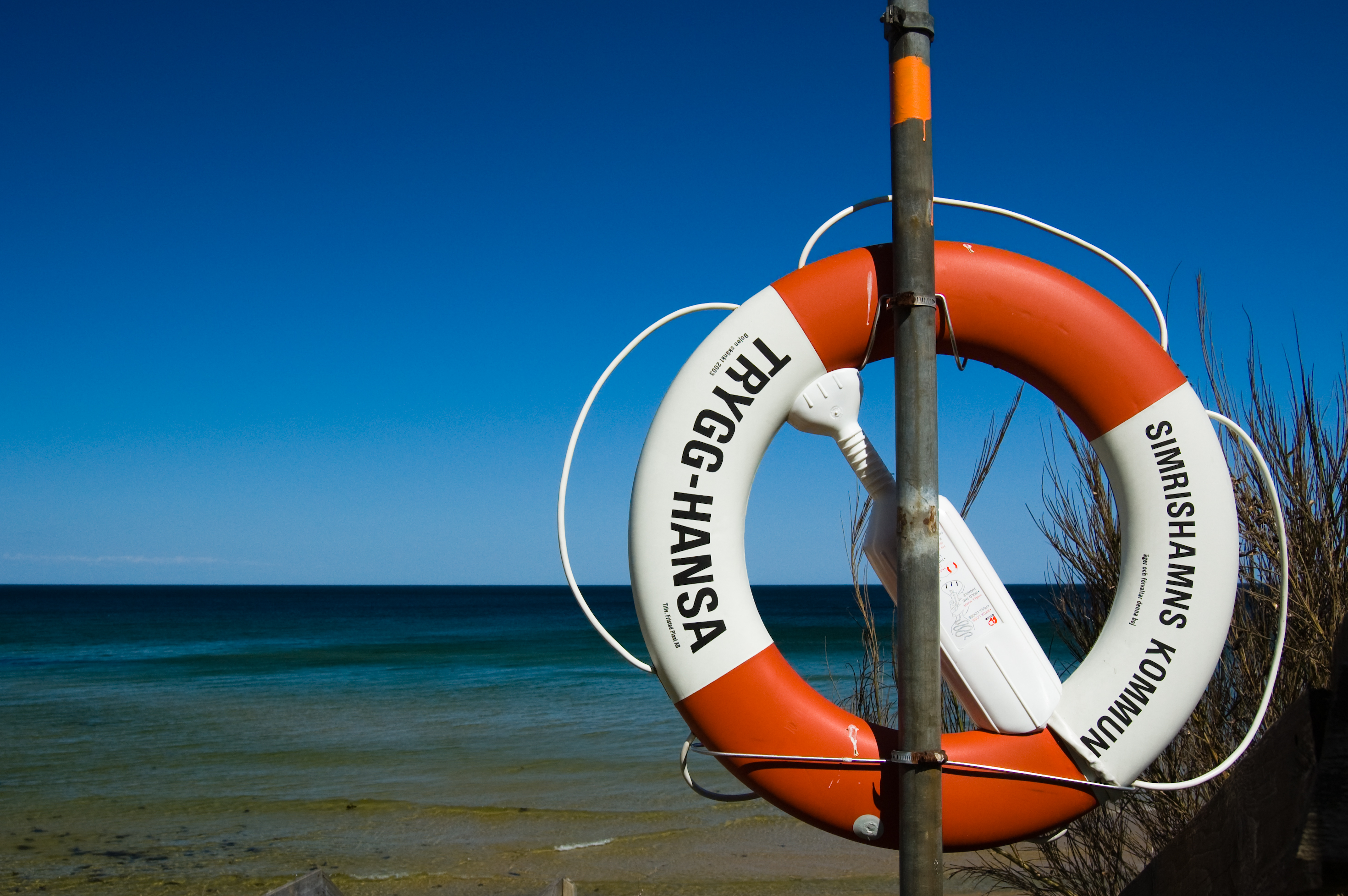 Life-buoy donated by Trygg-Hansa to Simrishamn municipality